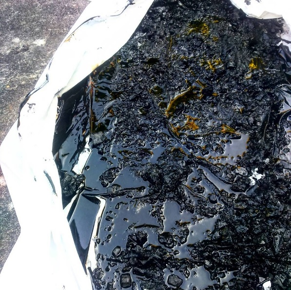 Raw oil.